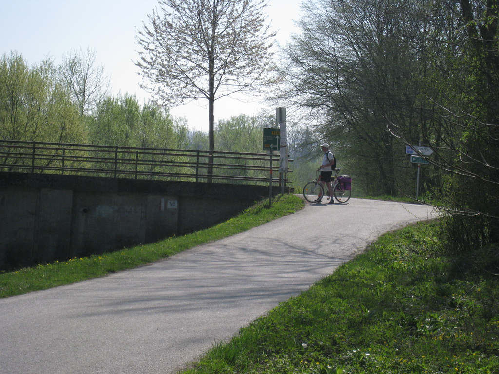 Traisental bikeway